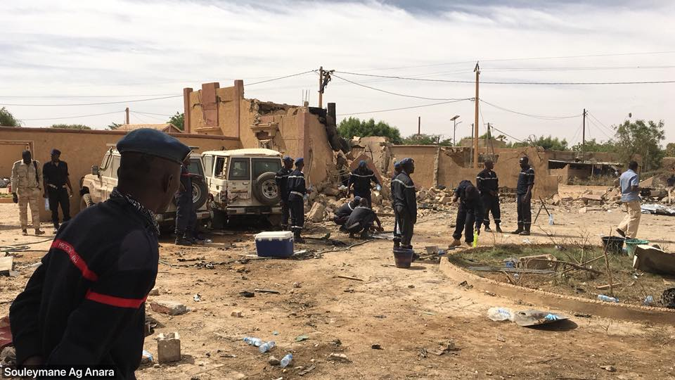 After a terrorist attack in Gao, mali, 13 November 2018